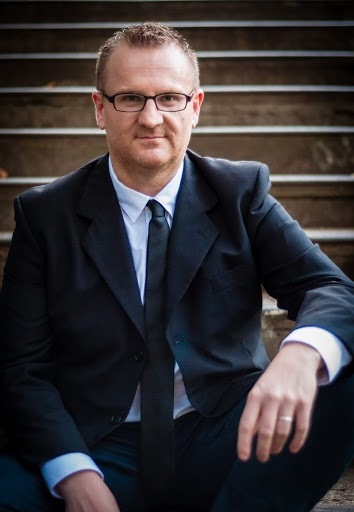 @Petrus